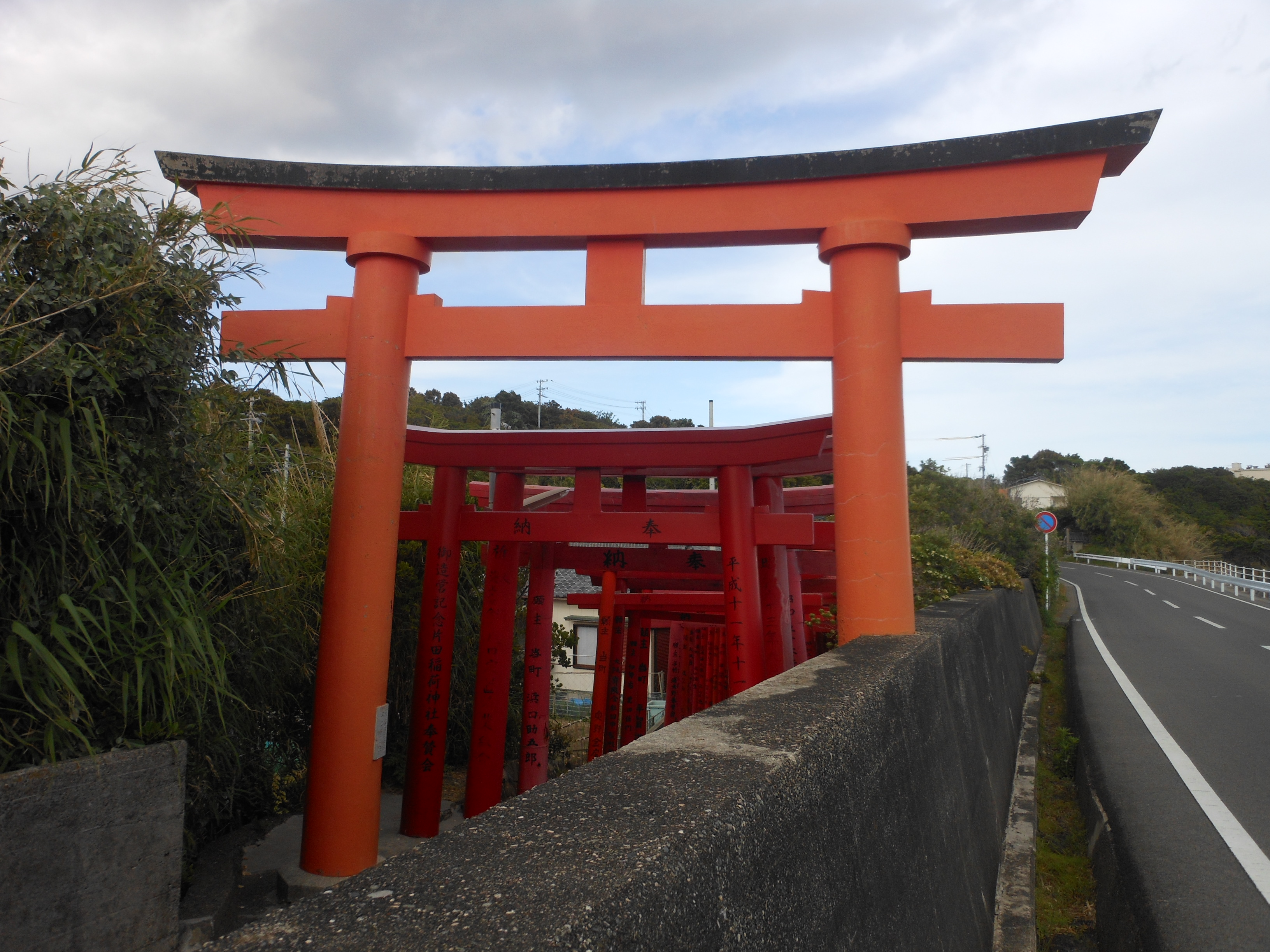 This is the Katada Inari shrine in Shima, Mie, Japan.